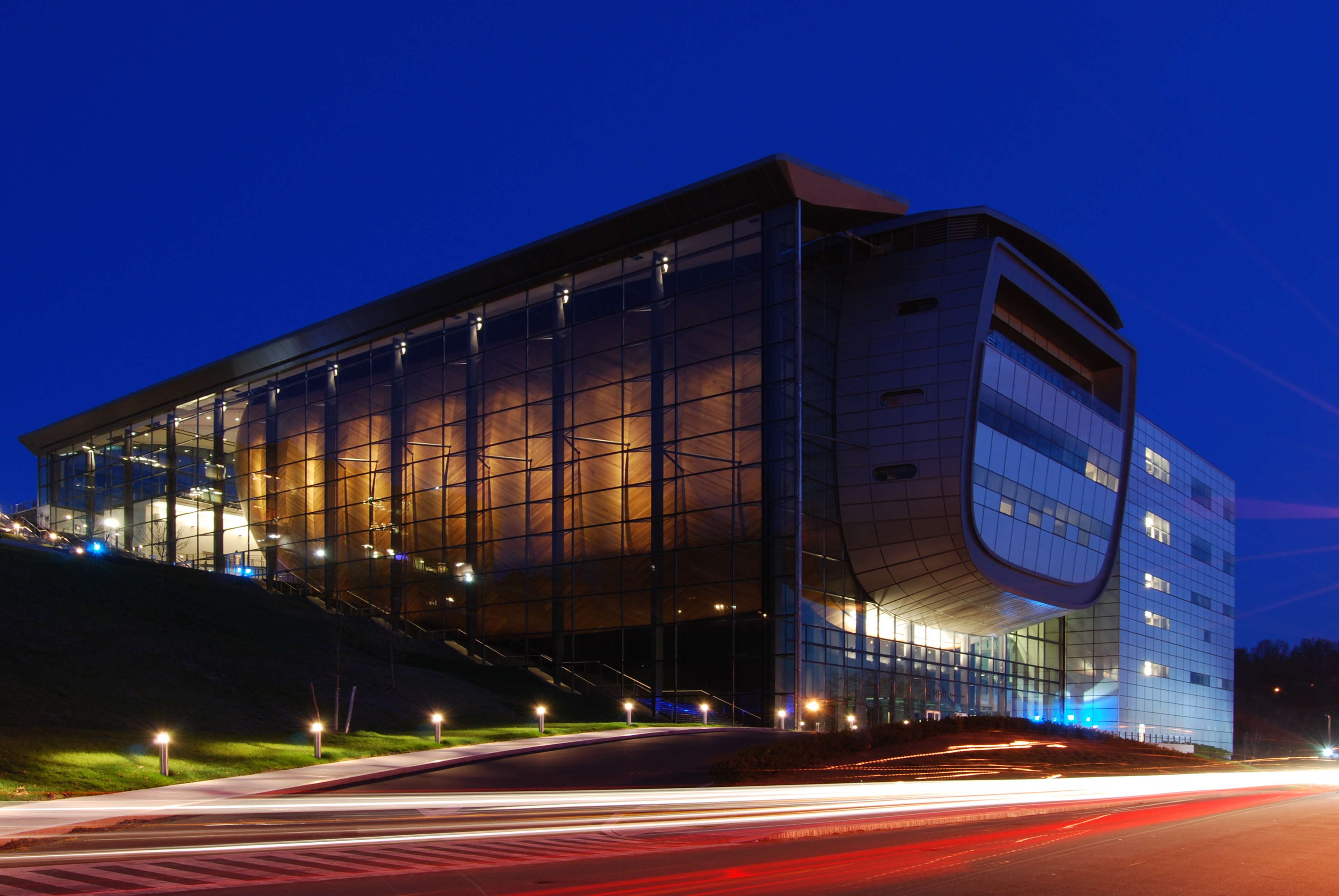 Experimental Media and Performing Arts Center on the Rensselaer Polytechnic Institute campus, at twilight